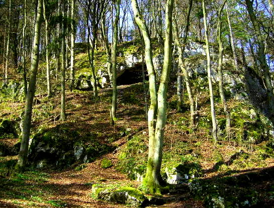 Stone age caverns Klausenhöhle (observe entrance at the upper side of the image) near Essing, Kelheim (district), Bavaria, Germany